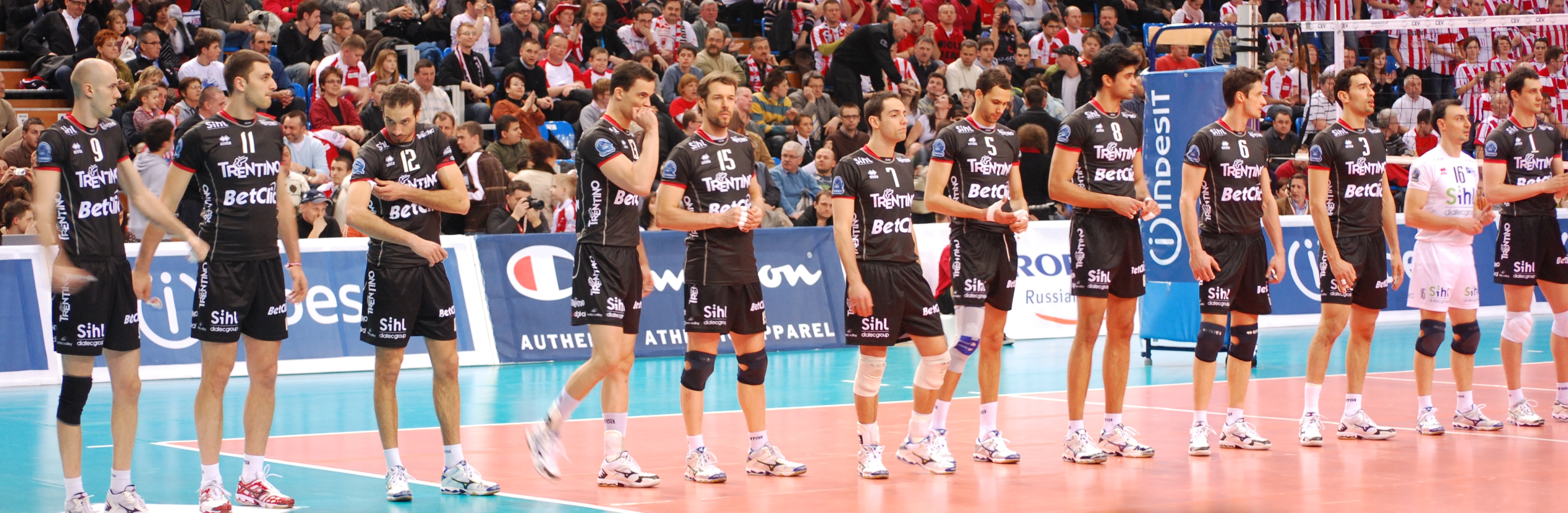 Trentino Volley before match with Asseco Resovia Rzeszów in Podpromie Hall in Rzeszow (Indesit European Champions League).